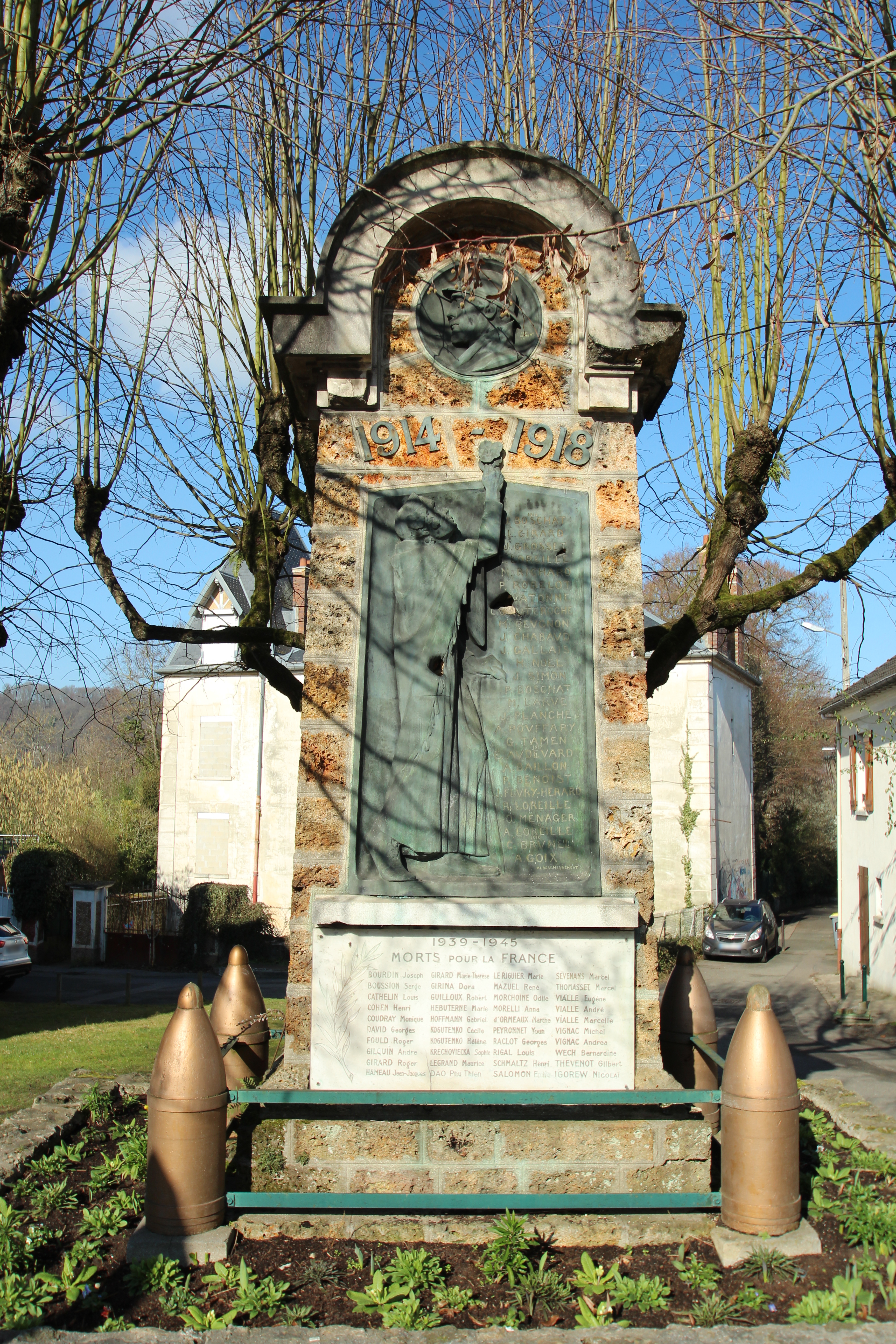 War monument in Bures-sur-Yvette, France. Object location48° 41′ 49.02″ N, 2° 09′ 44.24″ E